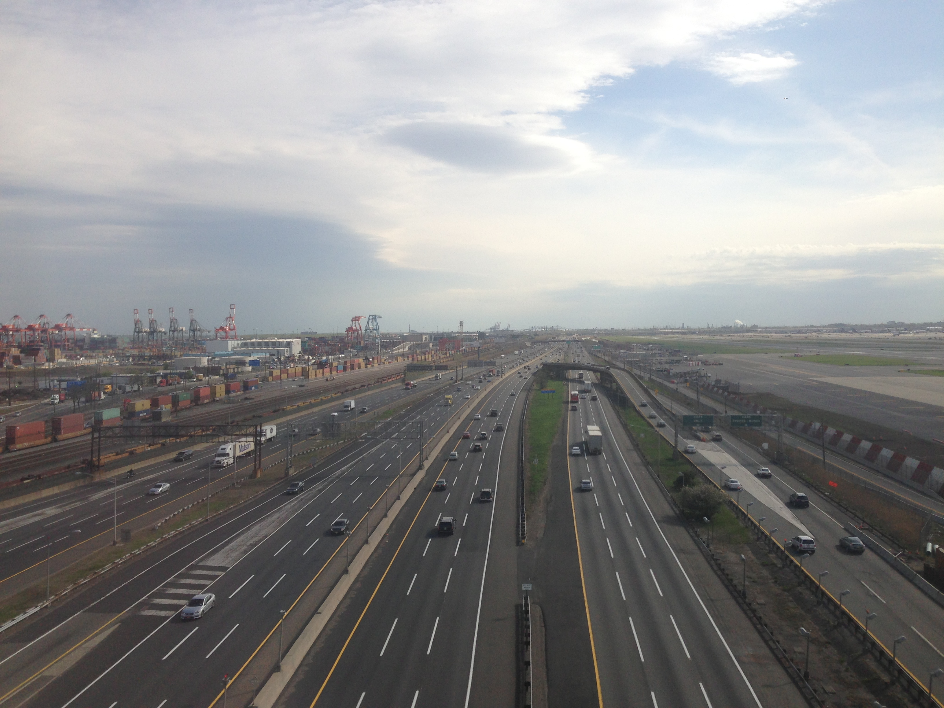 View of the New Jersey Turnpike mainline from an airplane heading for Newark Liberty International Airport